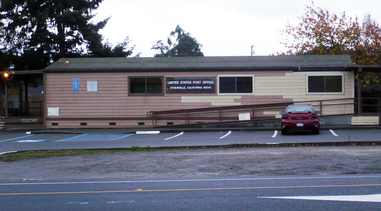 New Hydesville Post Office (shown) is across the street from the old Post Office on Route 36 at Rohnerville Road (Main Street), in Hydesville a census-designated place in Humboldt County, California, United States located 4.5 miles (7.2 km) southeast of Fortuna, at an elevation of 364 feet (111 m).